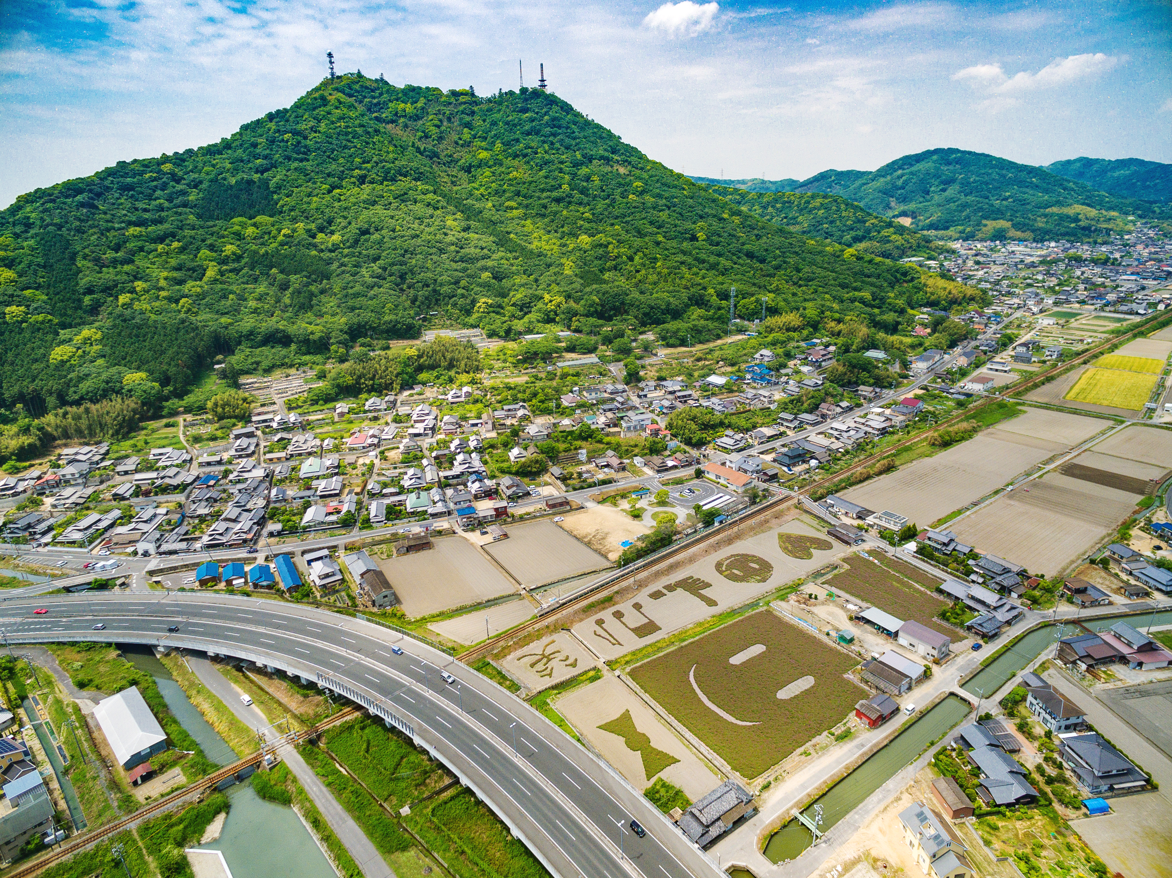 Japan: tambo art in Tamano (Okayama prefecture). Tsuneyama (Mount Tsune) in the left back.